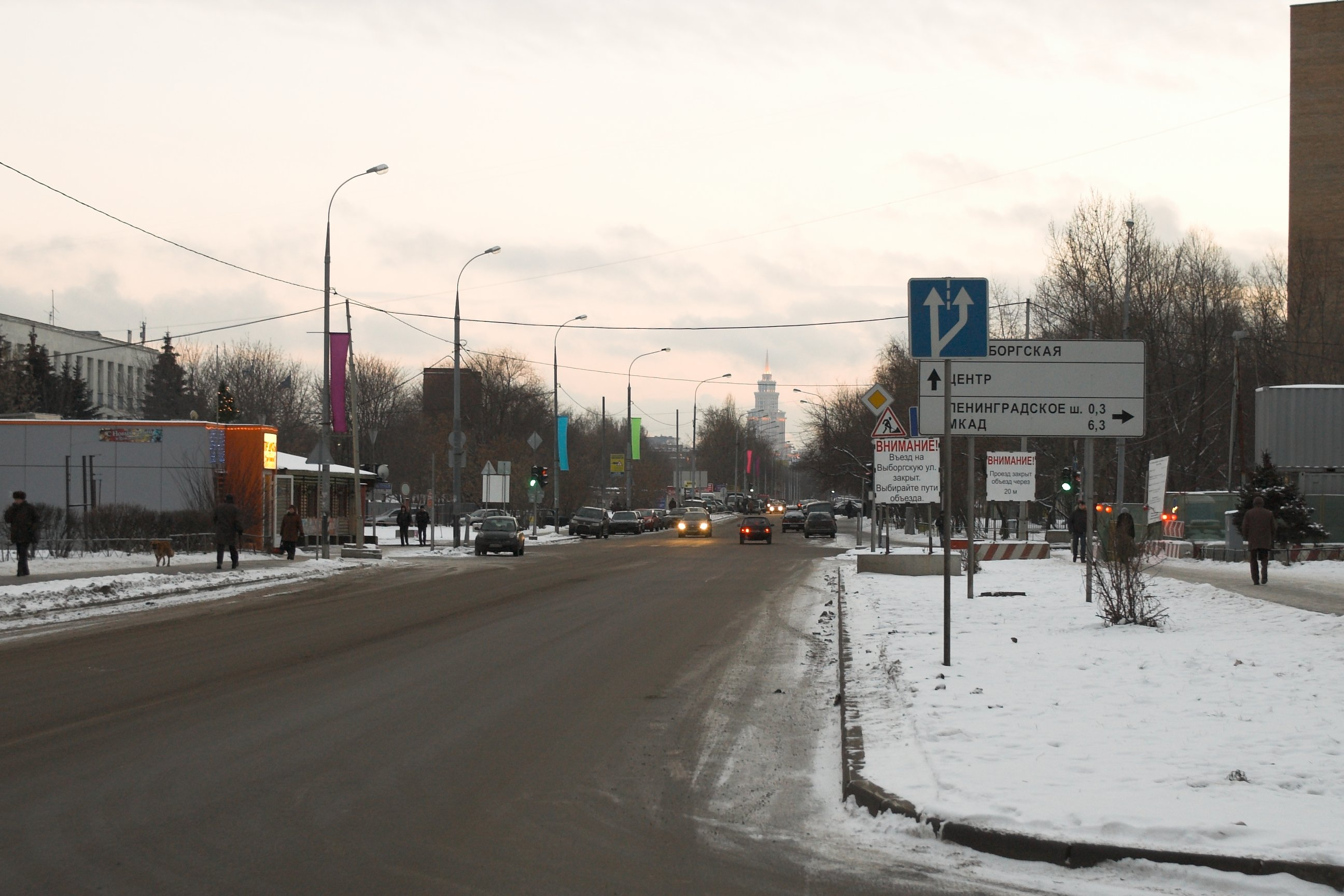 crossroad Admirala Mackarova street with Vyborgskaya street in Moscow.